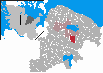 This map shows the area of the Gemeinde (municipality) Mucheln in the Kreis (district) Plön, Schleswig-Holstein, Germany.